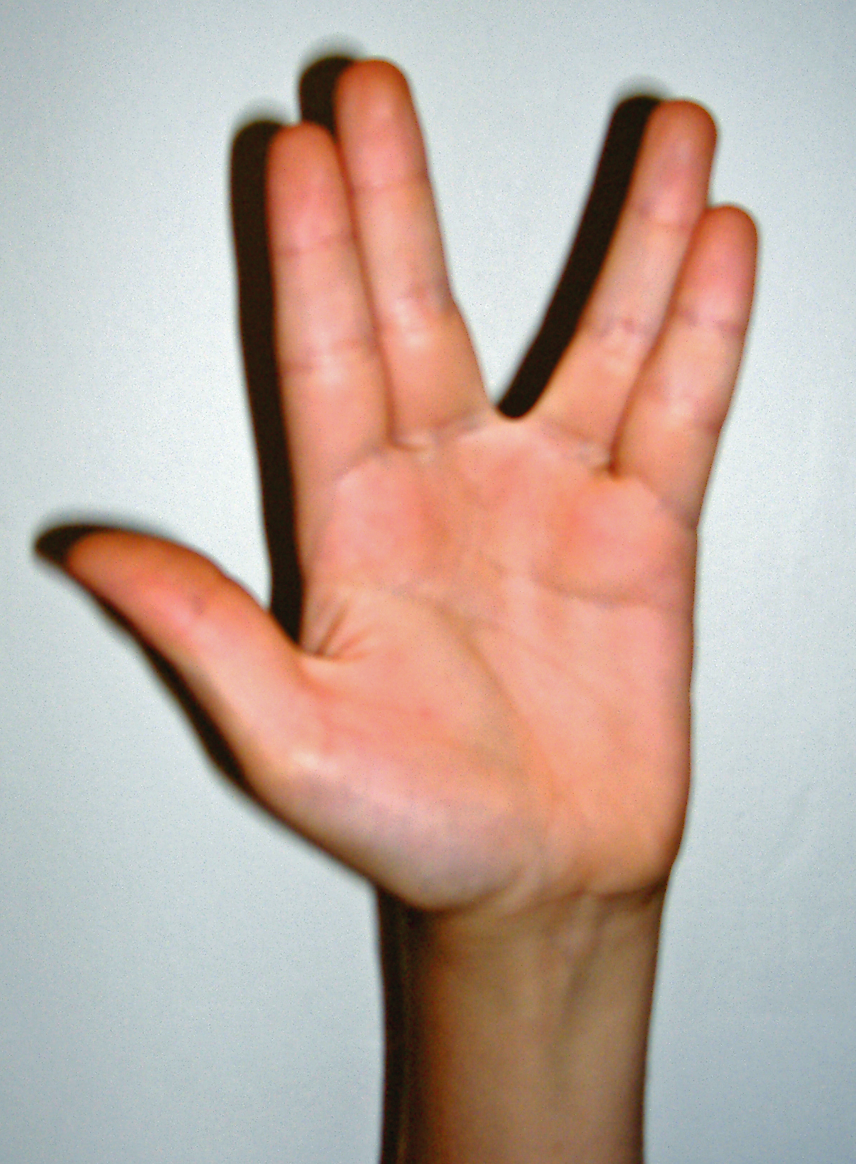 vulcan salute "live long and prosper" (hand sign)